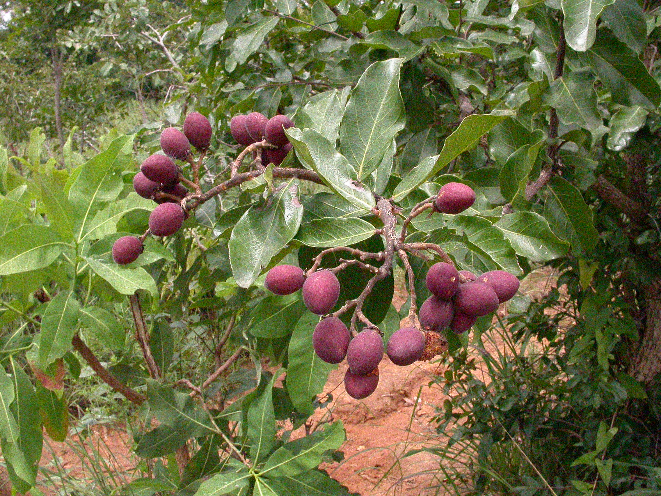 Maranthes polyandra. Near Banfora, Burkina Faso.